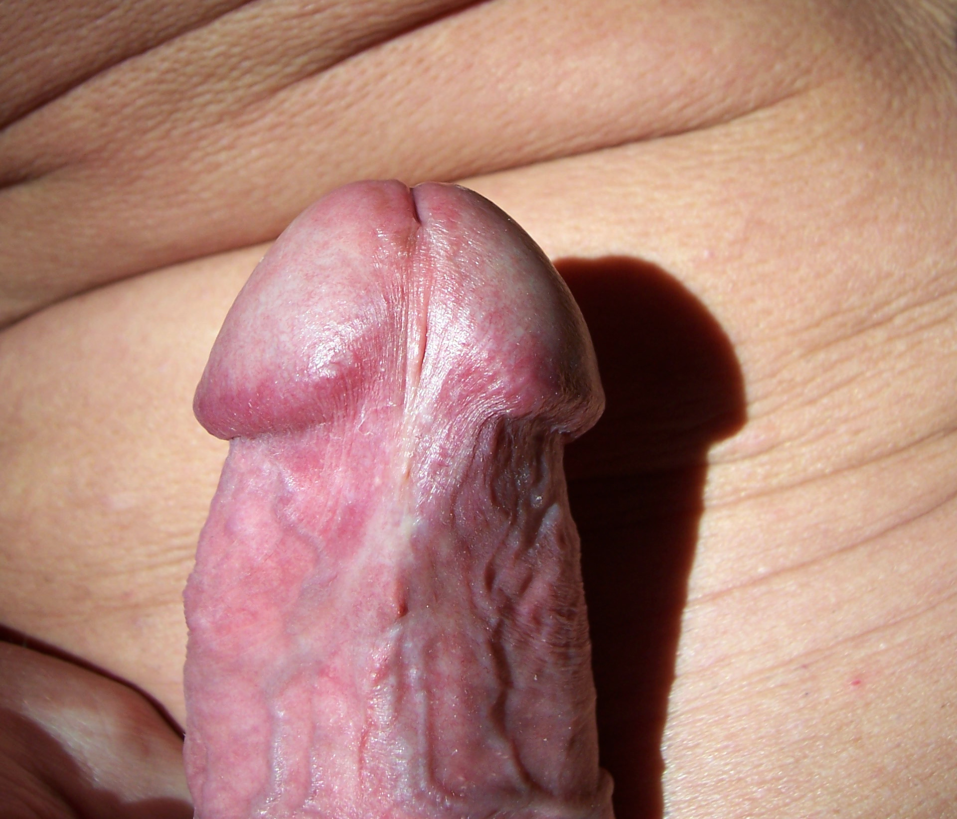 partially cut frenum, adult male, 10 years after surgery